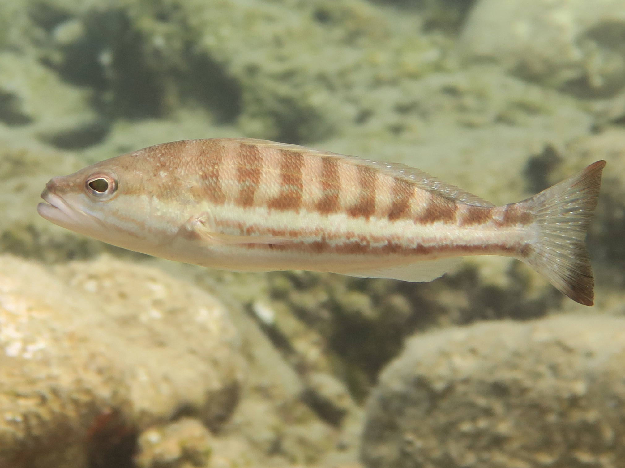 A Comber in the Mediterranean Sea near Plakias on Crete, Greece